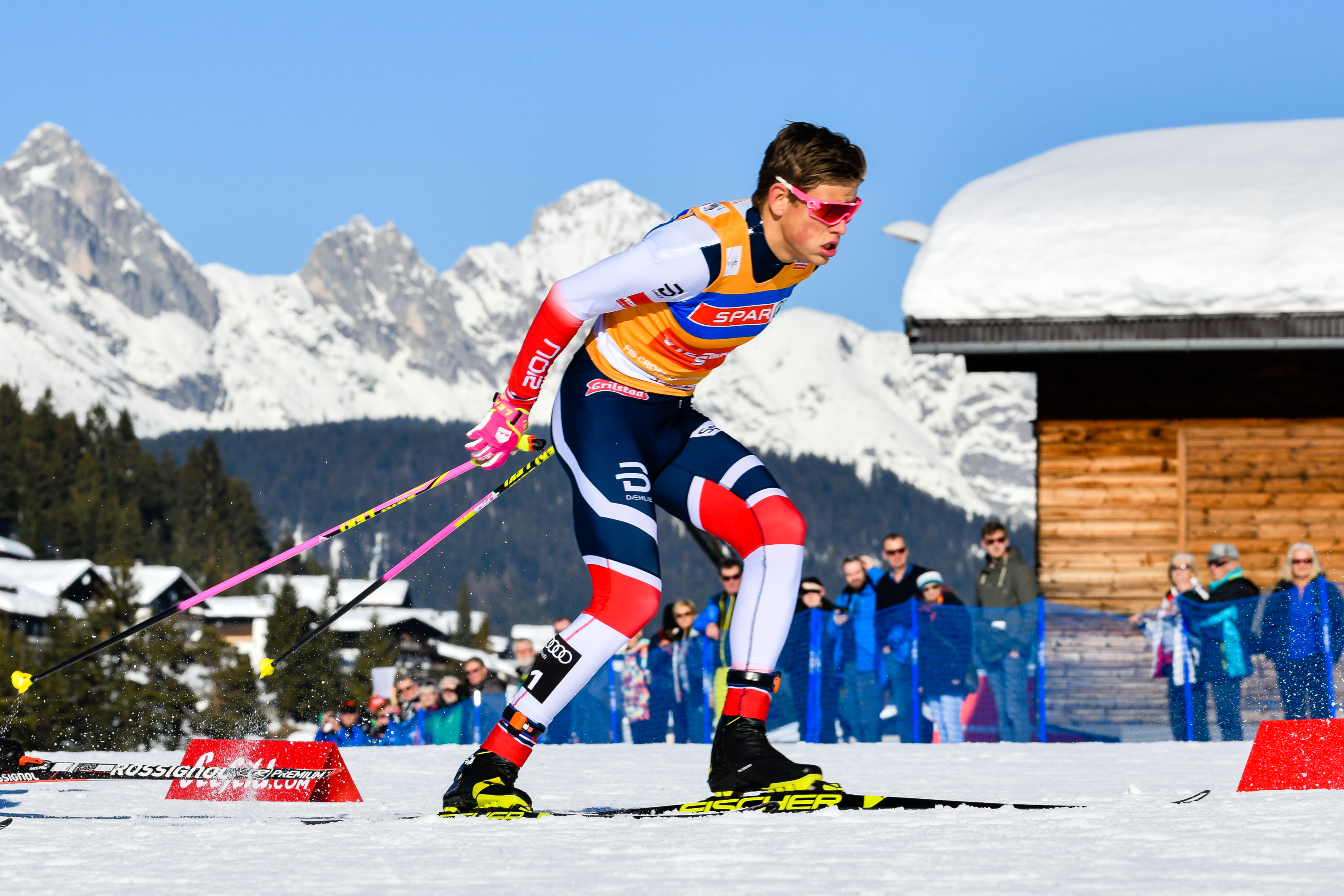 Seefeld-Triple 2018, second day January 27th. Picture shows Johannes Høsflot Klæbo